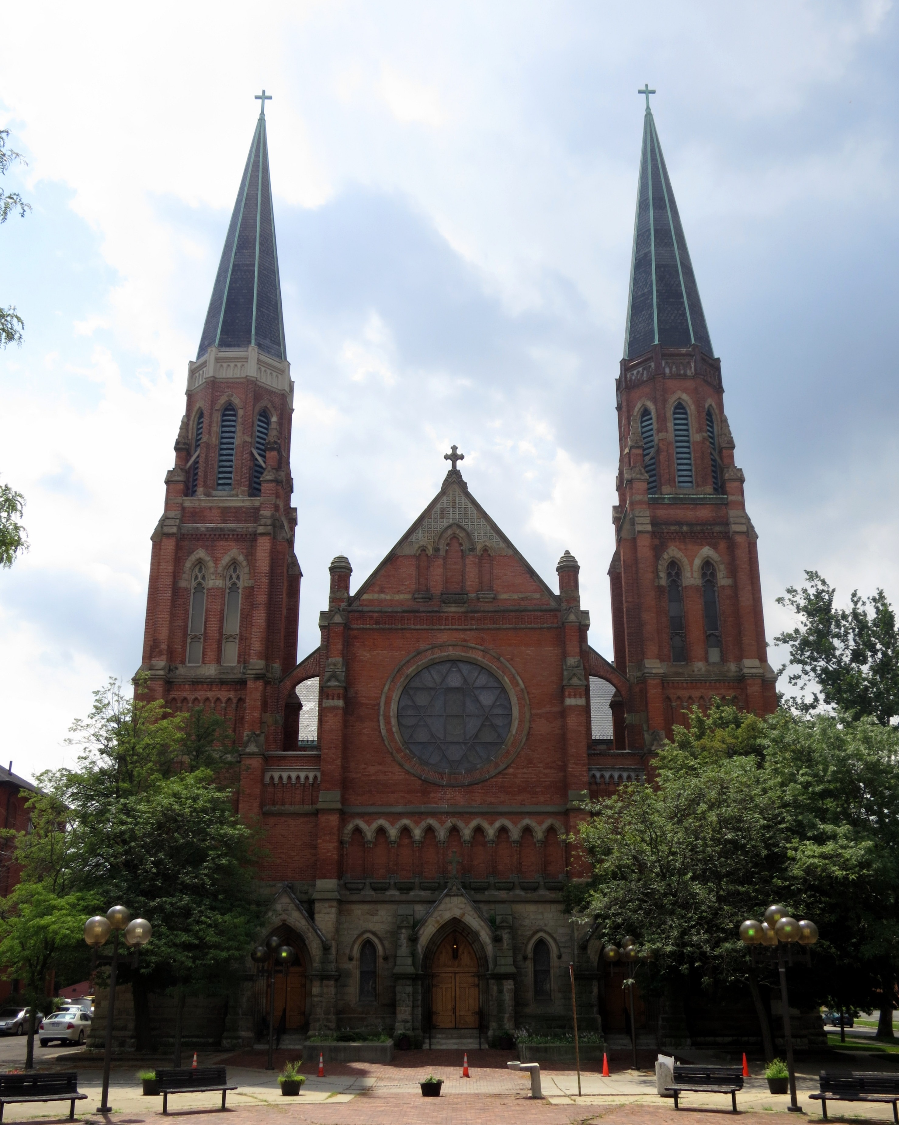 Sainte Anne de Detroit Catholic Church (Detroit, MI) - exterior